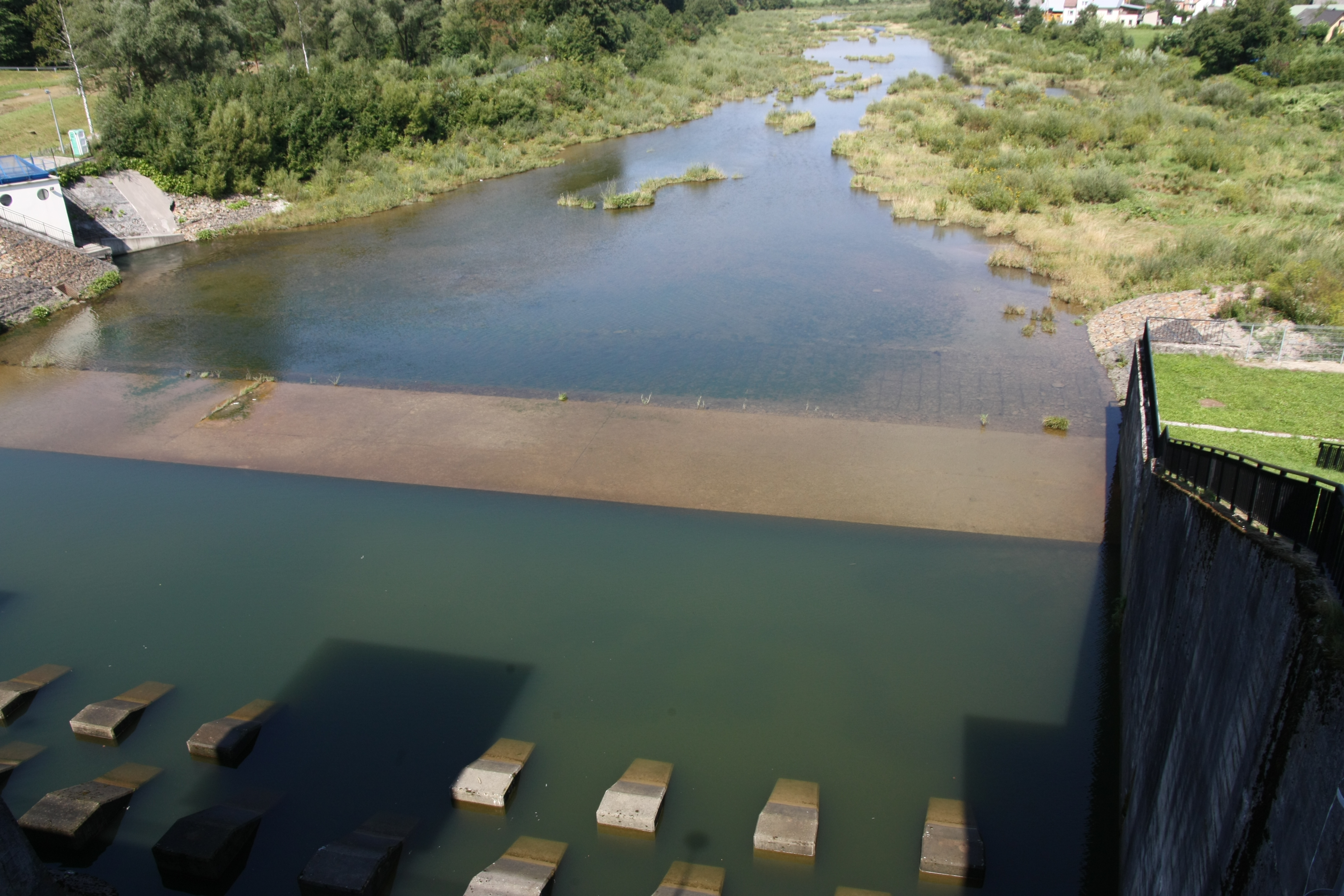 Dam in Myczkowce.